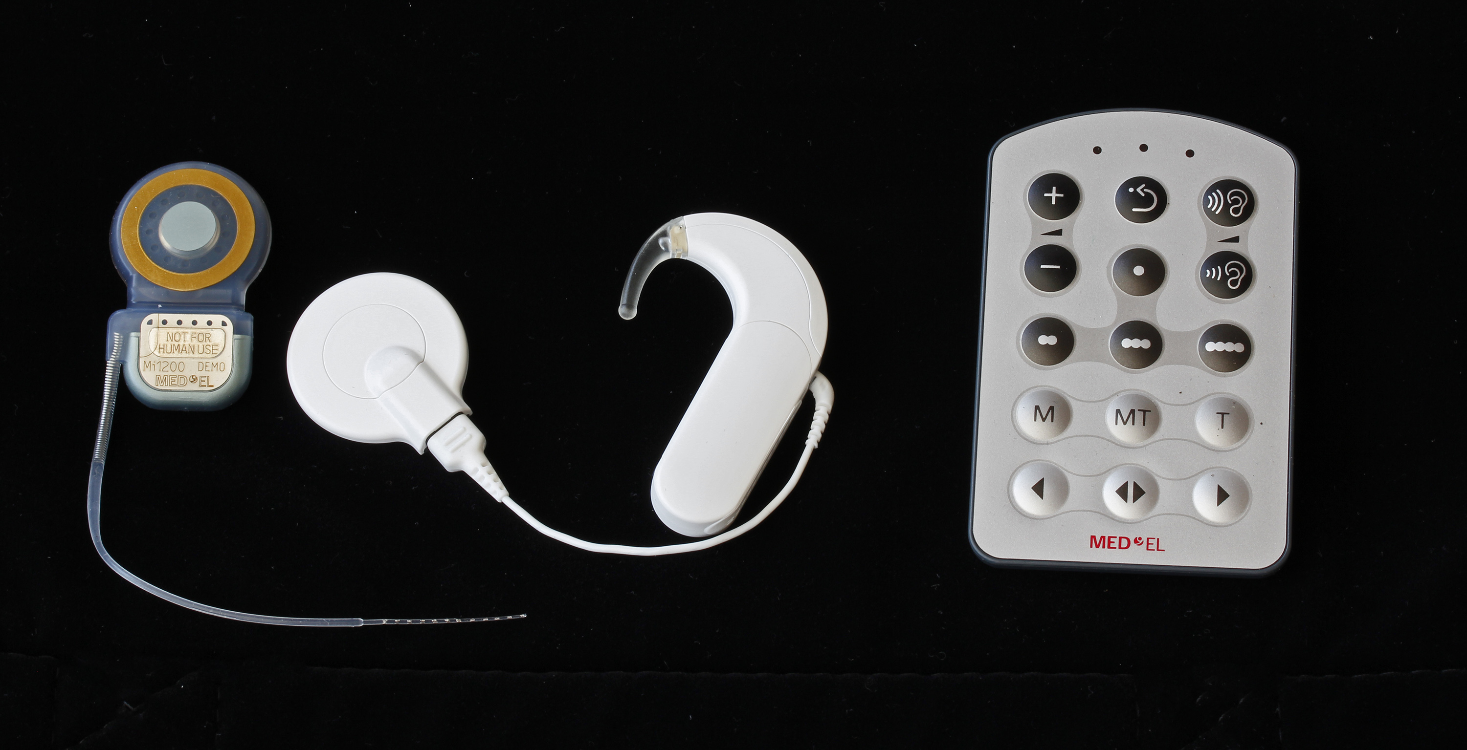 Cochlear Implant Set, by the Austrian company MedEl. Left) Implant, with the receiver coil and the electrodes which are to be inserted into the cochlea. Center) Microphone, speech processor, and transmitter coil. Right) Remote control device to adjust the signal processing.